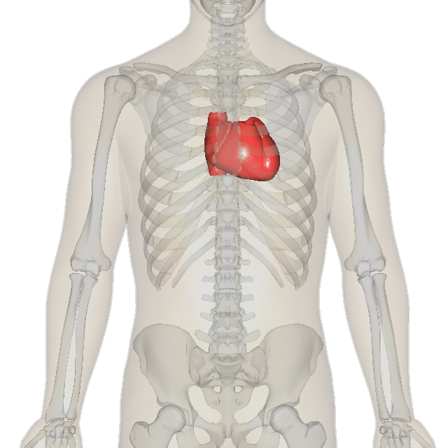 Stationary view of the heart and skeleton of the human body